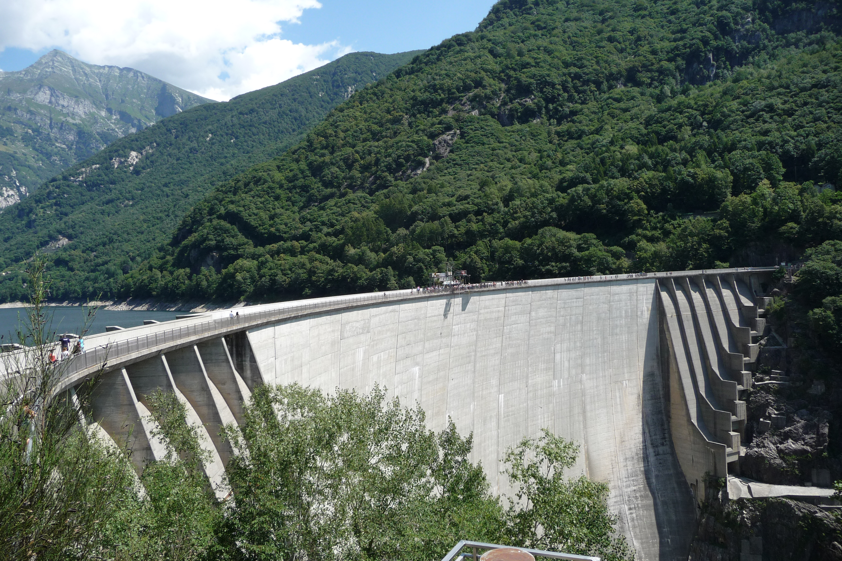 Verzasca Dam